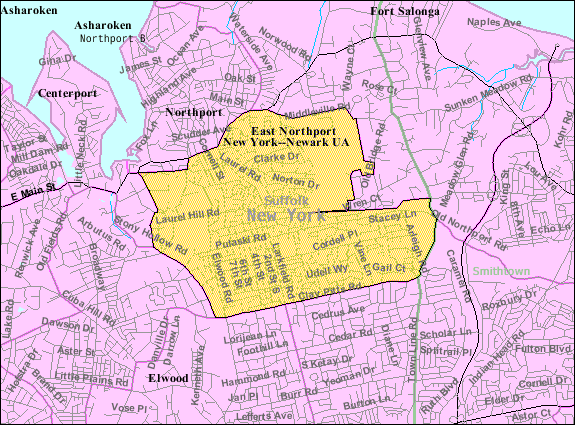 U.S. Census 2000 reference map for East Northport